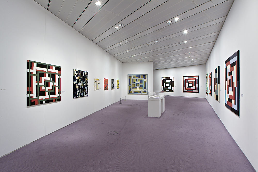 MARY WEBB SCVA INSTALLATION 2011 11